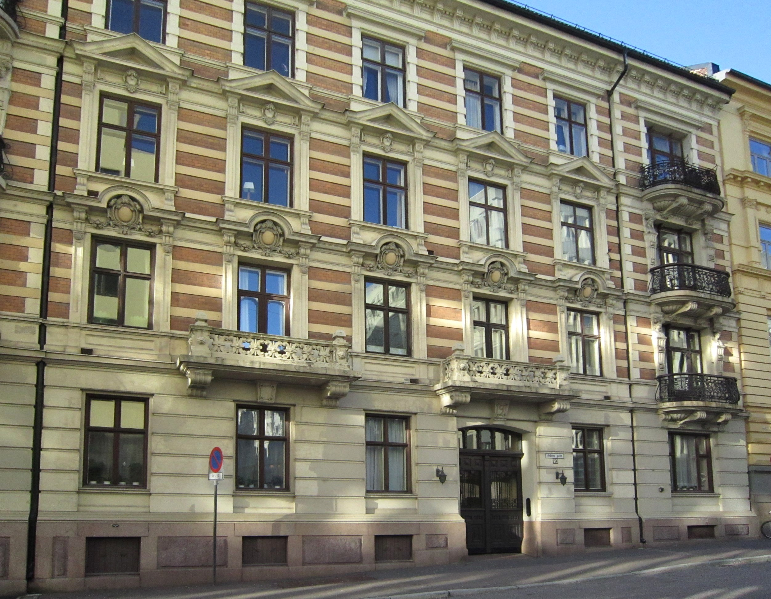 Arbins gate 9. Oslo, Norway, from 1891, arch. Henrik Nissen.